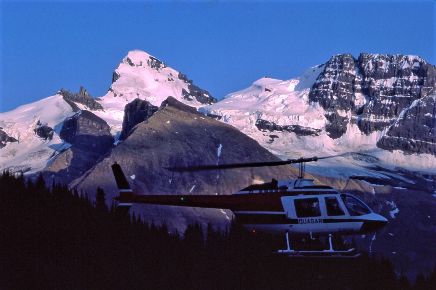 On a trek to climb the Lyells, one of our party badly twisted an ankle in an area where helicopters couldn't possibly land, so we took turns carrying him down to a clearing while one of our group ran back the ~20 km (12 mi) to get help. That's Mt. Forbes in the background. We waited for some time, but eventually a helicopter arrived on a SAR mission to carry the injured party out.